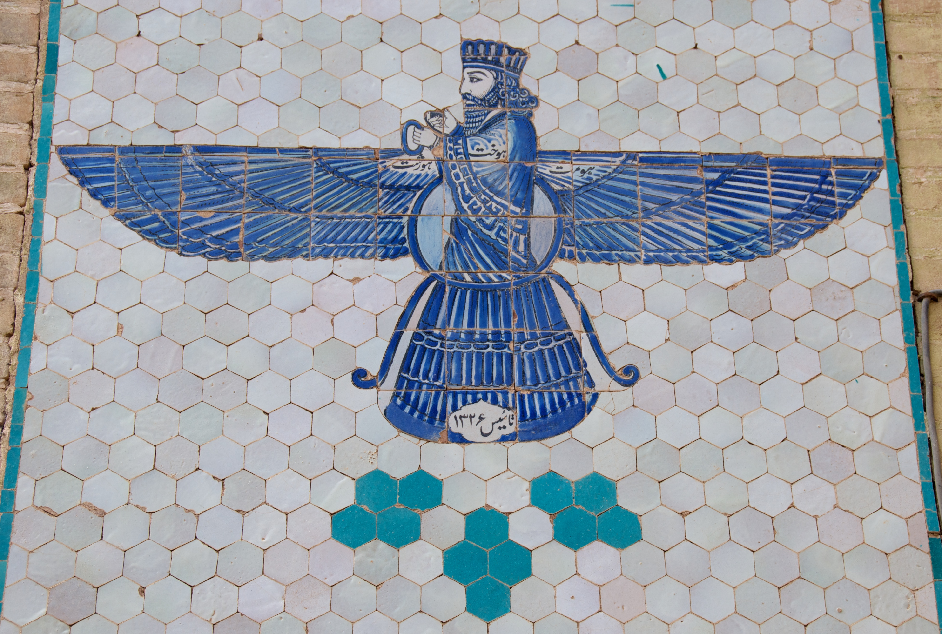 A depiction of the Zoroastrian god Ahura Mazda executed in glazed tile in the town of Taft, Iran. According to Wikipedia, "Ahura Mazdā . . . is the Avestan name for a divinity of the Old Iranian religion who was proclaimed the uncreated God by Zoroaster, the founder of Zoroastrianism." "Ahura Mazda is described as the highest deity of worship in Zoroastrianism, along with being the first and most frequently invoked deity in the Yasna." "Ahura Mazda is the creator and upholder of asha (truth). Ahura Mazda is an omniscient, but not an omnipotent God, however Ahura Mazda would eventually destroy evil." "Ahura Mazda's counterpart is Angra Mainyu, the 'evil spirit' and the creator of evil who will be destroyed before frashokereti, (the destruction of evil)."